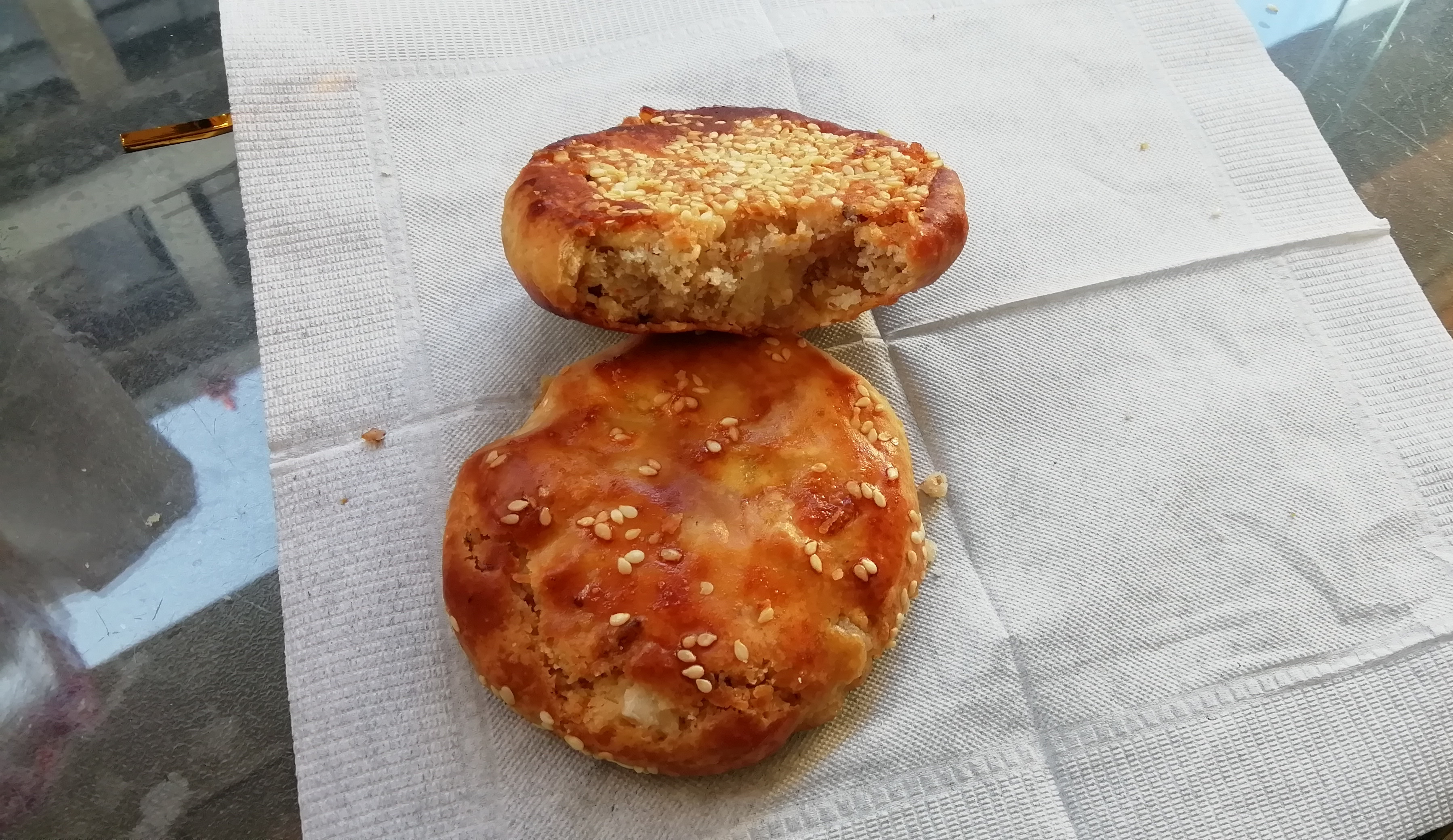 Chuchien Cake, also known as Hsinchu Cake; is a representative food of Hsinchu.